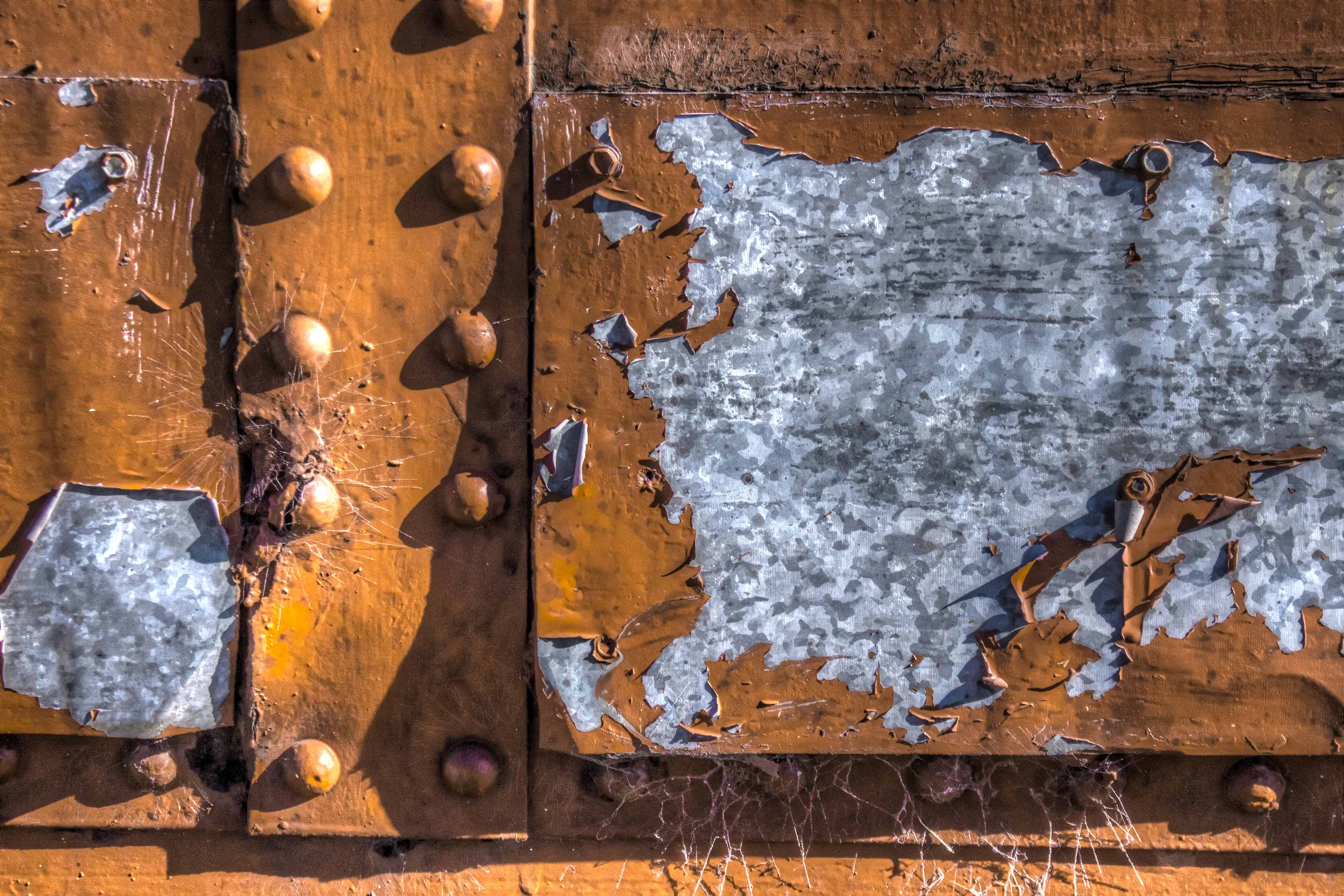 red rust3a